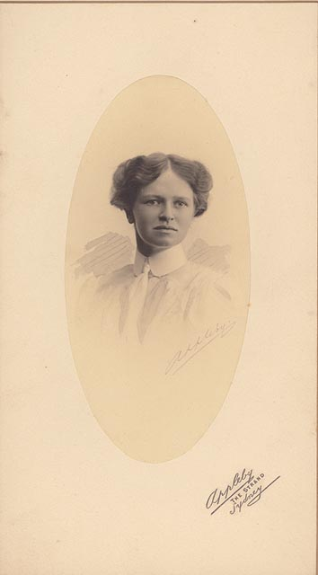 Format: Photograph Notes: Jessie Street (1889-1970) was a feminist and social activist. 203.147.135.214/about.html Find more detailed information about this photograph: .au/item/itemDetailPaged.aspx?itemID=413943 Search for more great images in the State Library's collections: .au/search/SimpleSearch.aspx From the collection of the State Library of New South Wales